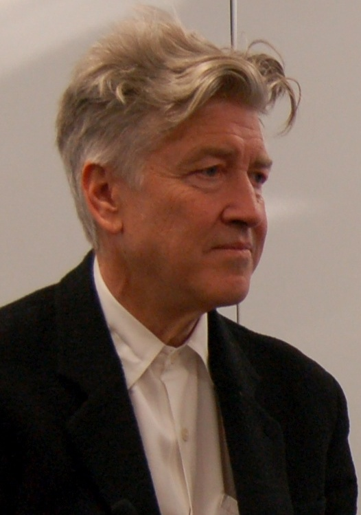 Lynch Being Introduced